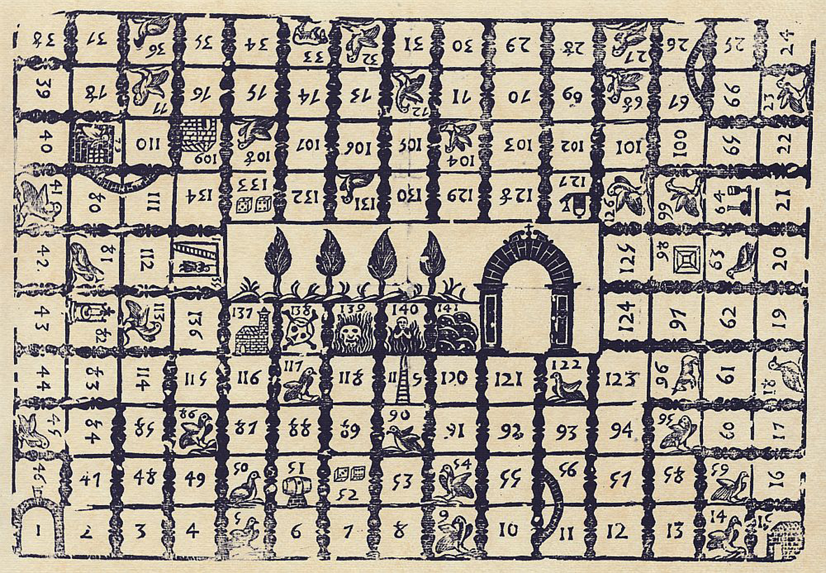 Game of the goose (17th century) from the print shop of Gabriel Guasp in Palma de Mallorca.